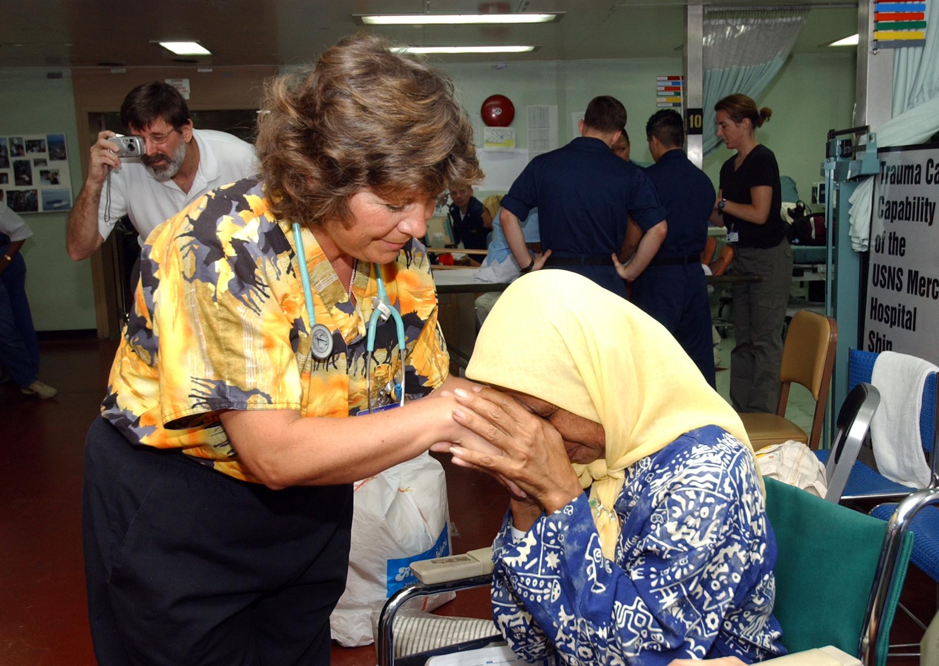 Indian Ocean (Mar. 14, 2005) - An elderly Indonesian patient shows her sincere appreciation to a "Project HOPE" volunteer by kissing her hand and saying a prayer for her as she waits for her helicopter flight back to Banda Aceh, Sumatra, Indonesia, upon discharge from the Military Sealift Command (MSC) hospital ship USNS Mercy (T-AH 19). Mercy is serving as an enabling platform to assist humanitarian operations ashore in ways that host nations and international relief organization find useful. Mercy is currently off the waters of Indonesia in support of Operation Unified Assistance, the humanitarian relief effort to aid the victims of the tsunami that struck Southeast Asia. U.S. Navy photo by Photographer's Mate 2nd Class Jeffery Russell (RELEASED)